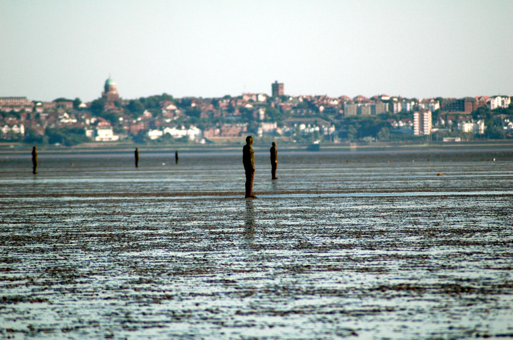 Antony Gormley's 'Another Place' installed on Crosby Beach, Merseyside, England